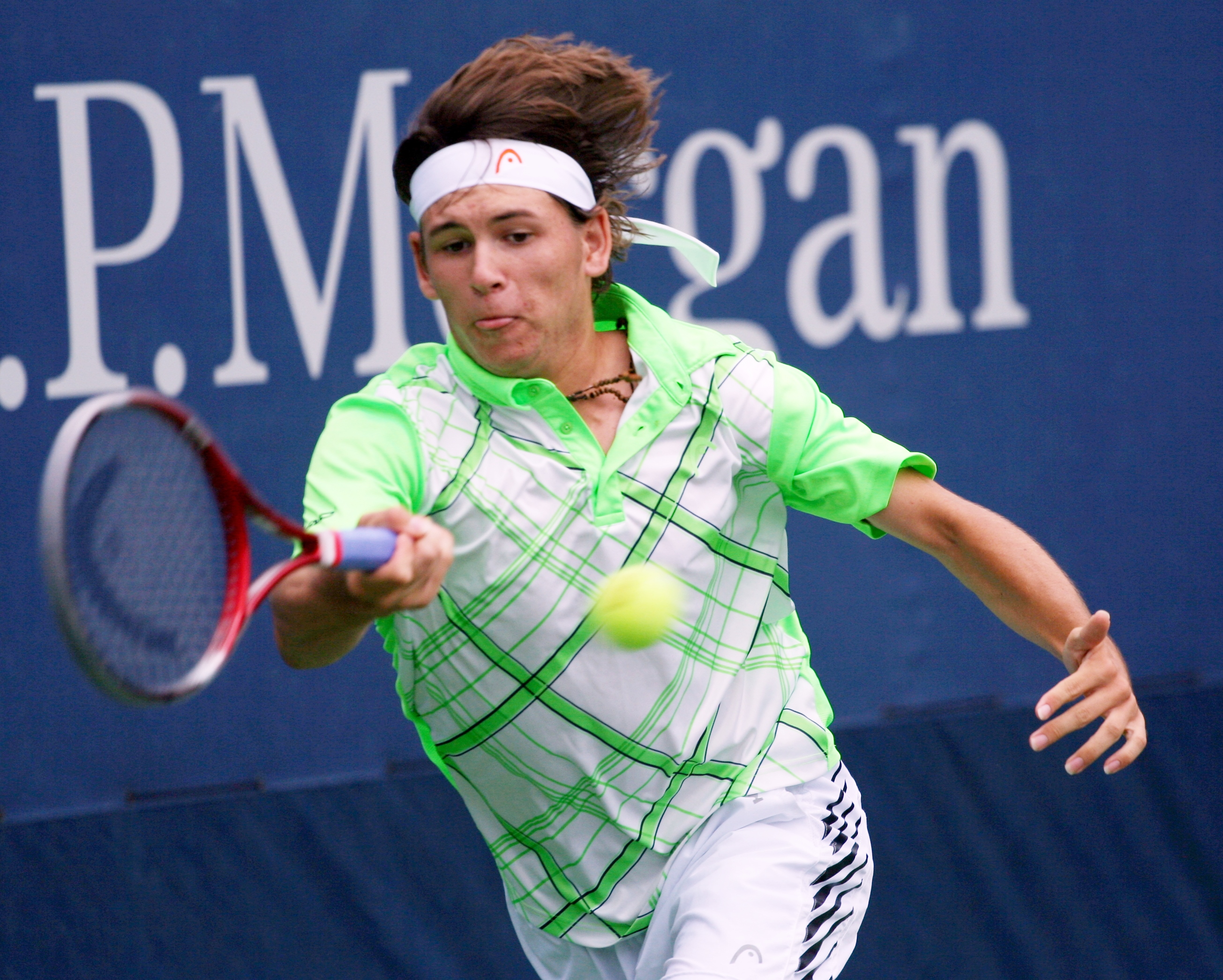 U.S. Open Juniors Monday, Sept. 2, 2013